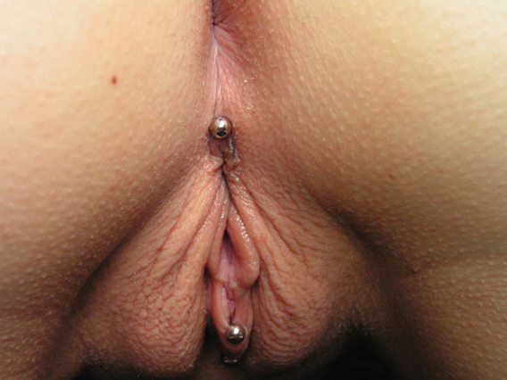 Fourchette photo